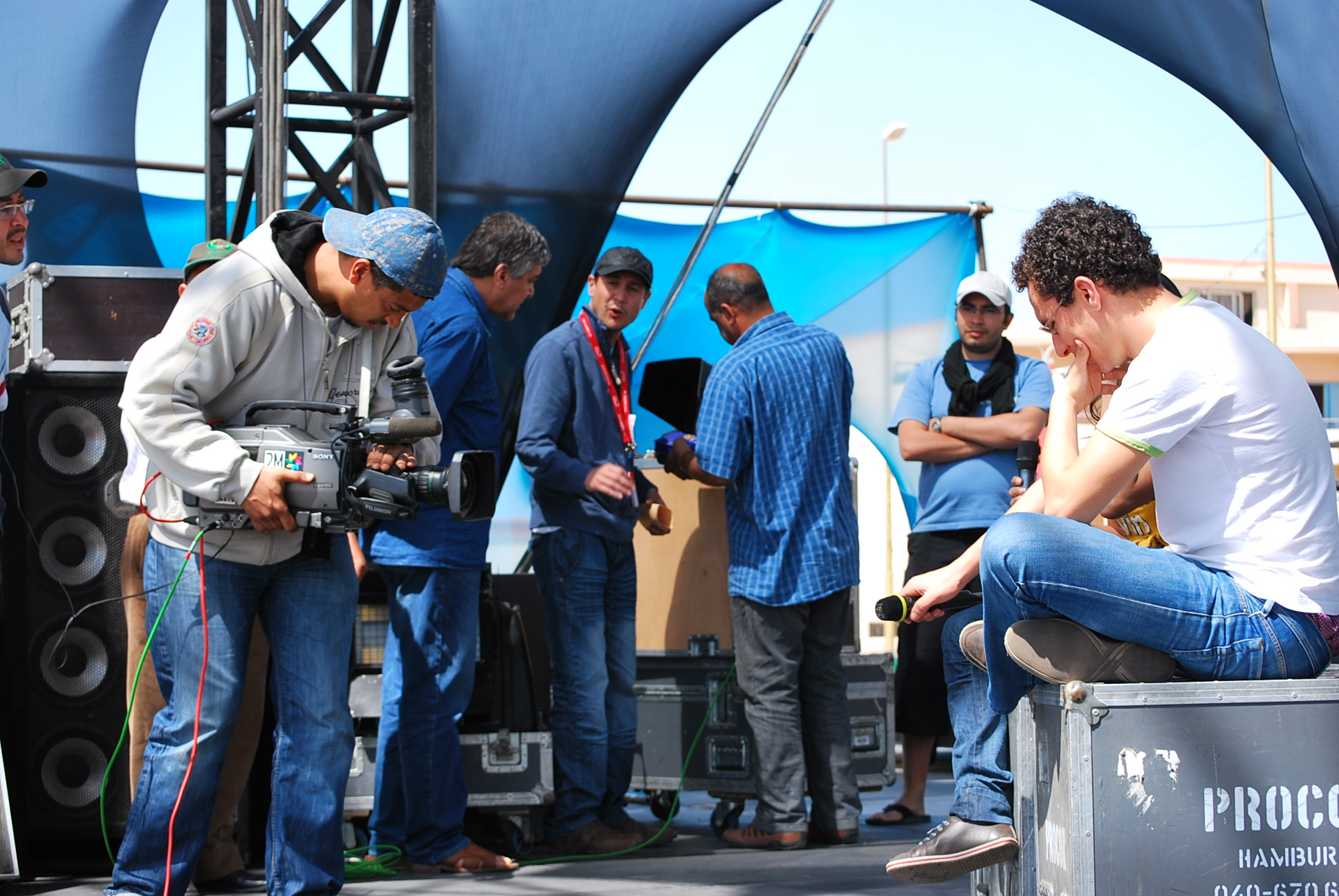 Filming of the television program Ajial by the Moroccan TV team of 2M at Dakhla